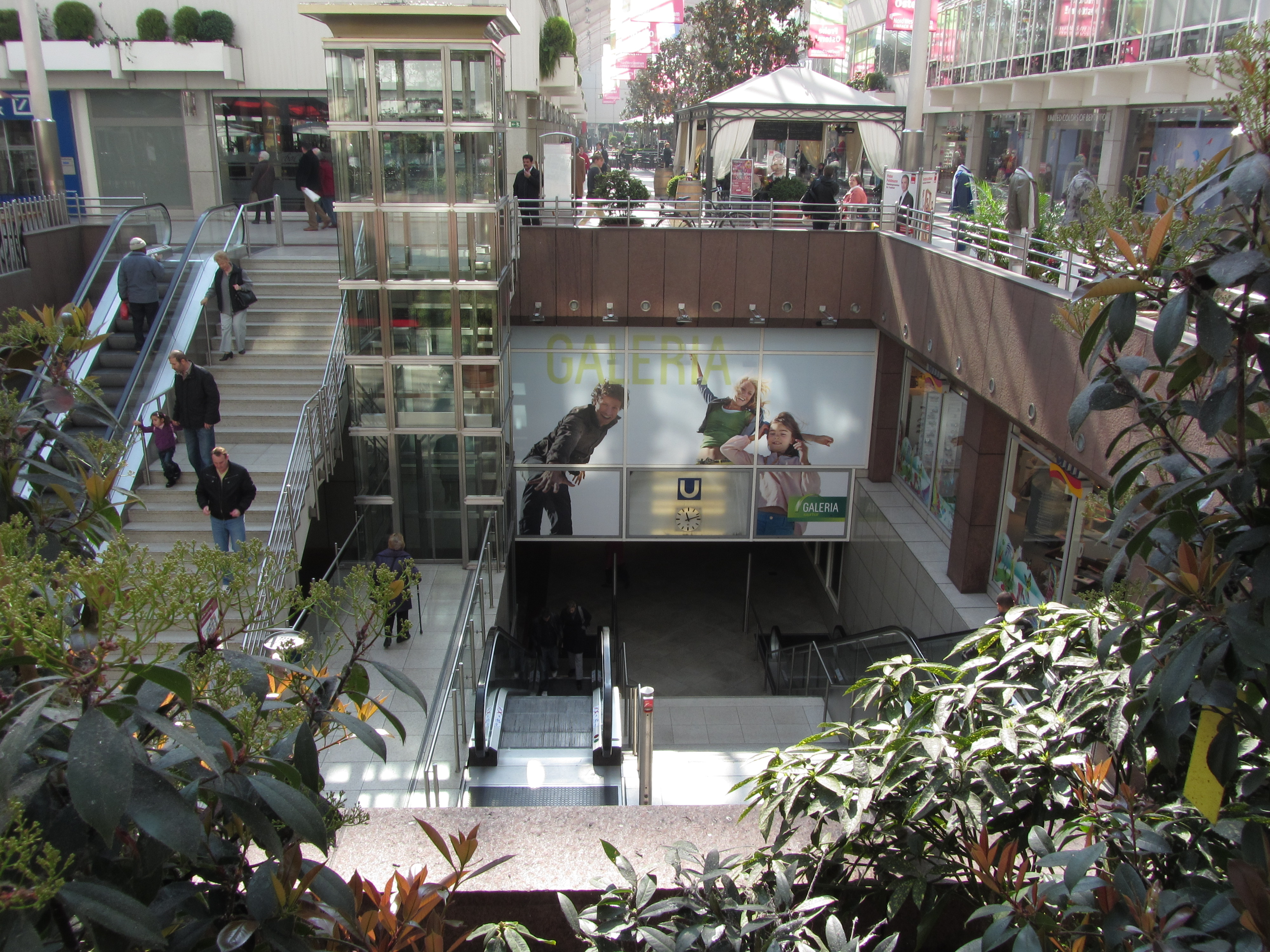 Frankfurt am Main, Nordwestzentrum, way down to the 'Nordwestzentrum' U-Bahn station